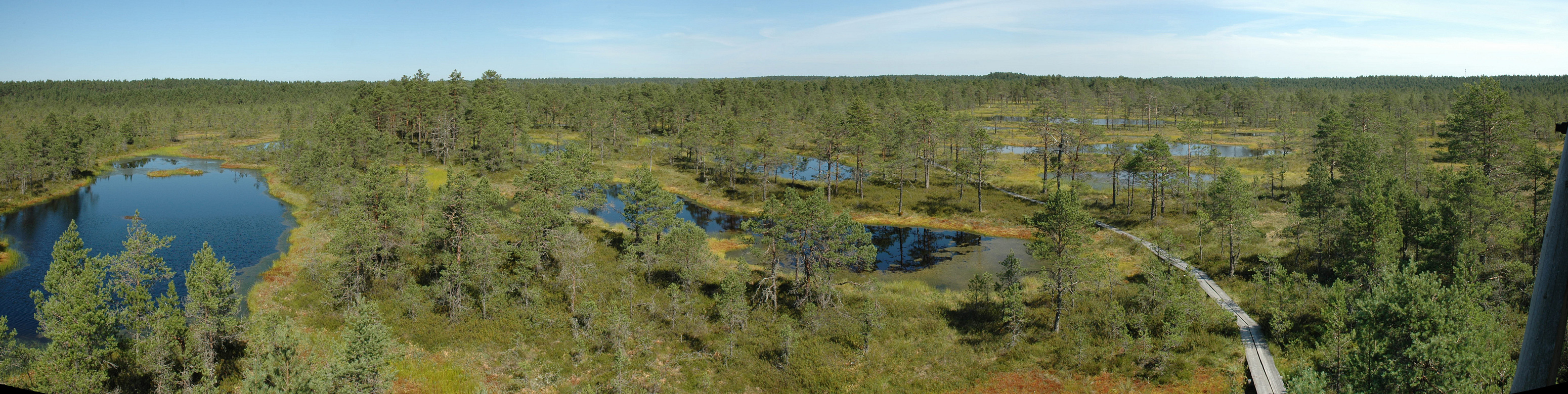 view from tower in viru raba in Lahemaa national park, Estonia